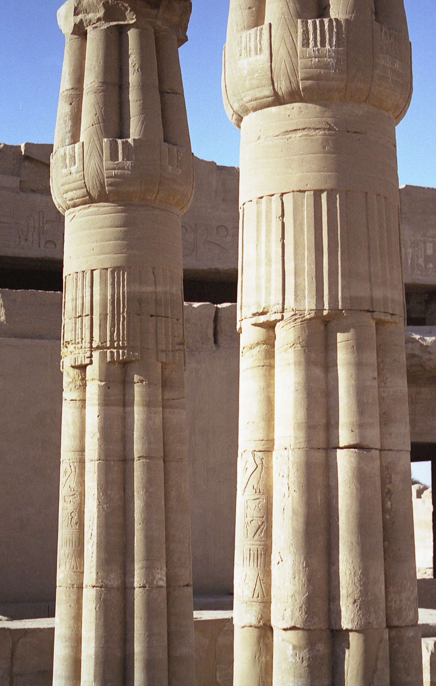 Goup of reeds ti form a column in Kranak temple